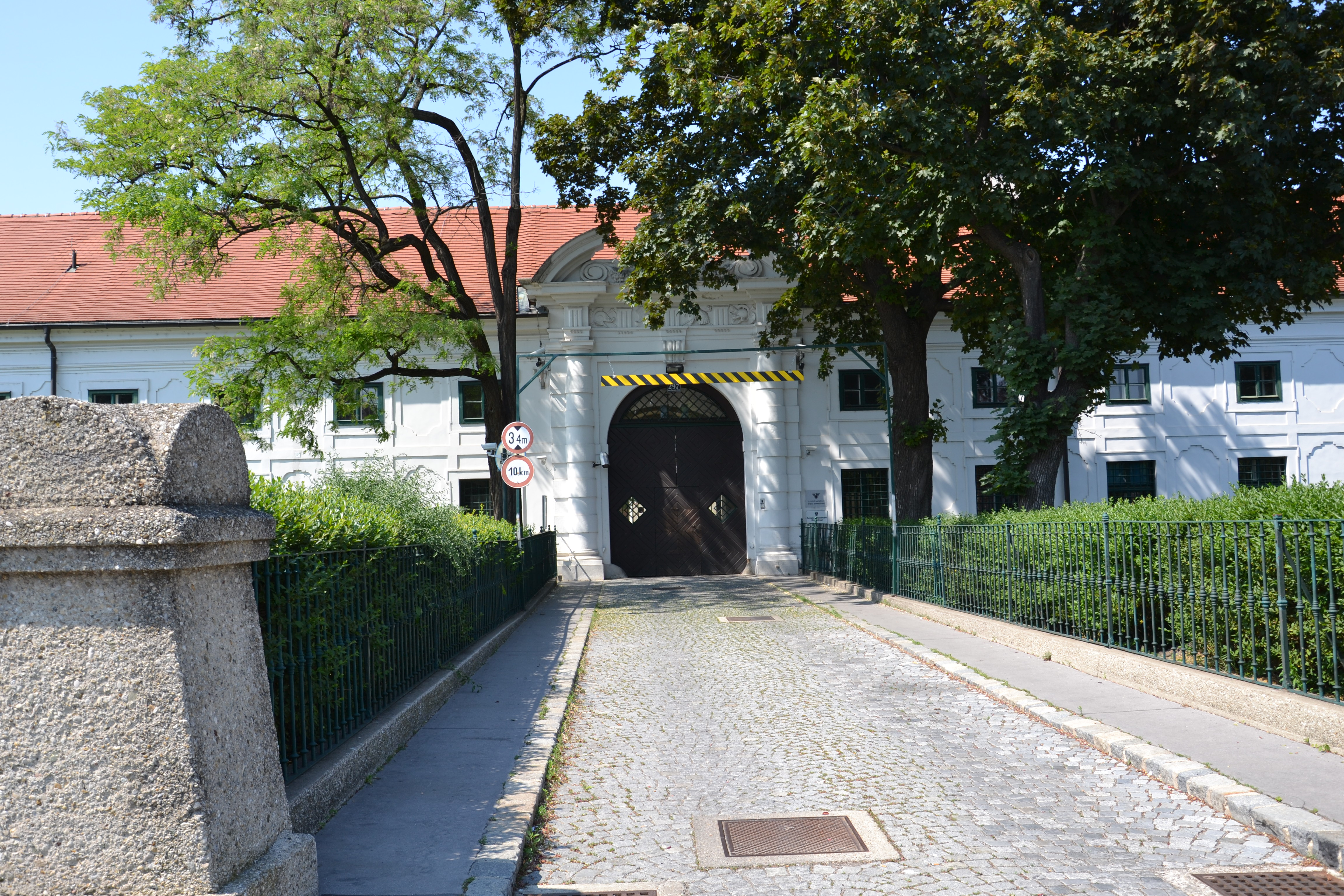 The Justizanstalt Simmering is a prison in austrias capital Vienna